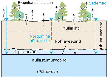 The scheme of groundwater. This picture is translated into Estonian by Aleksander Maastik.